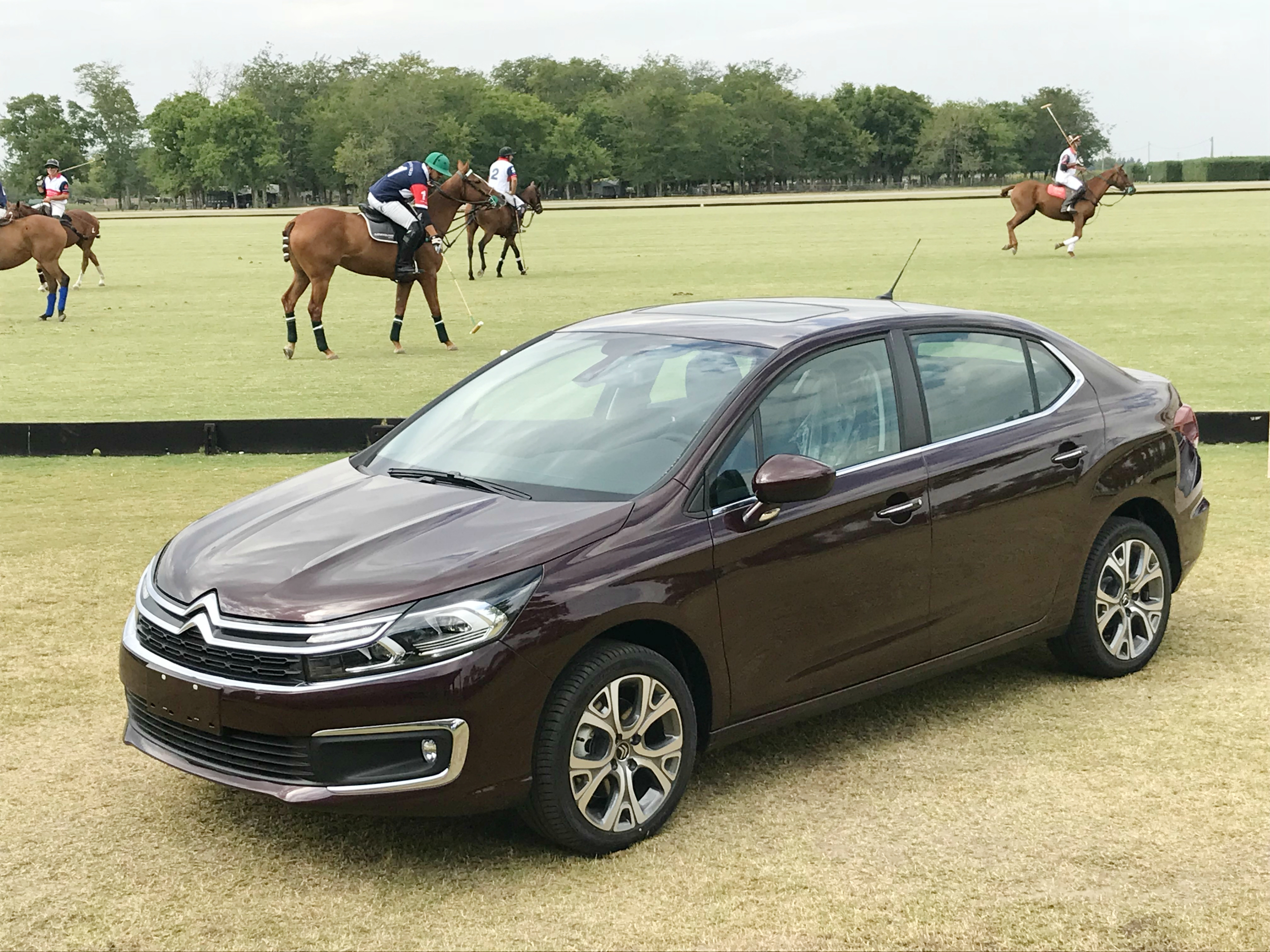 Argentinian made Citroën C4 Lounge after the model 2018 facelift .